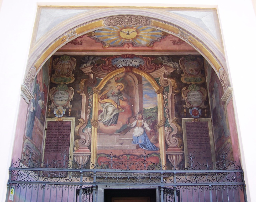 Church, Berzo Inferiore, Val Camonica